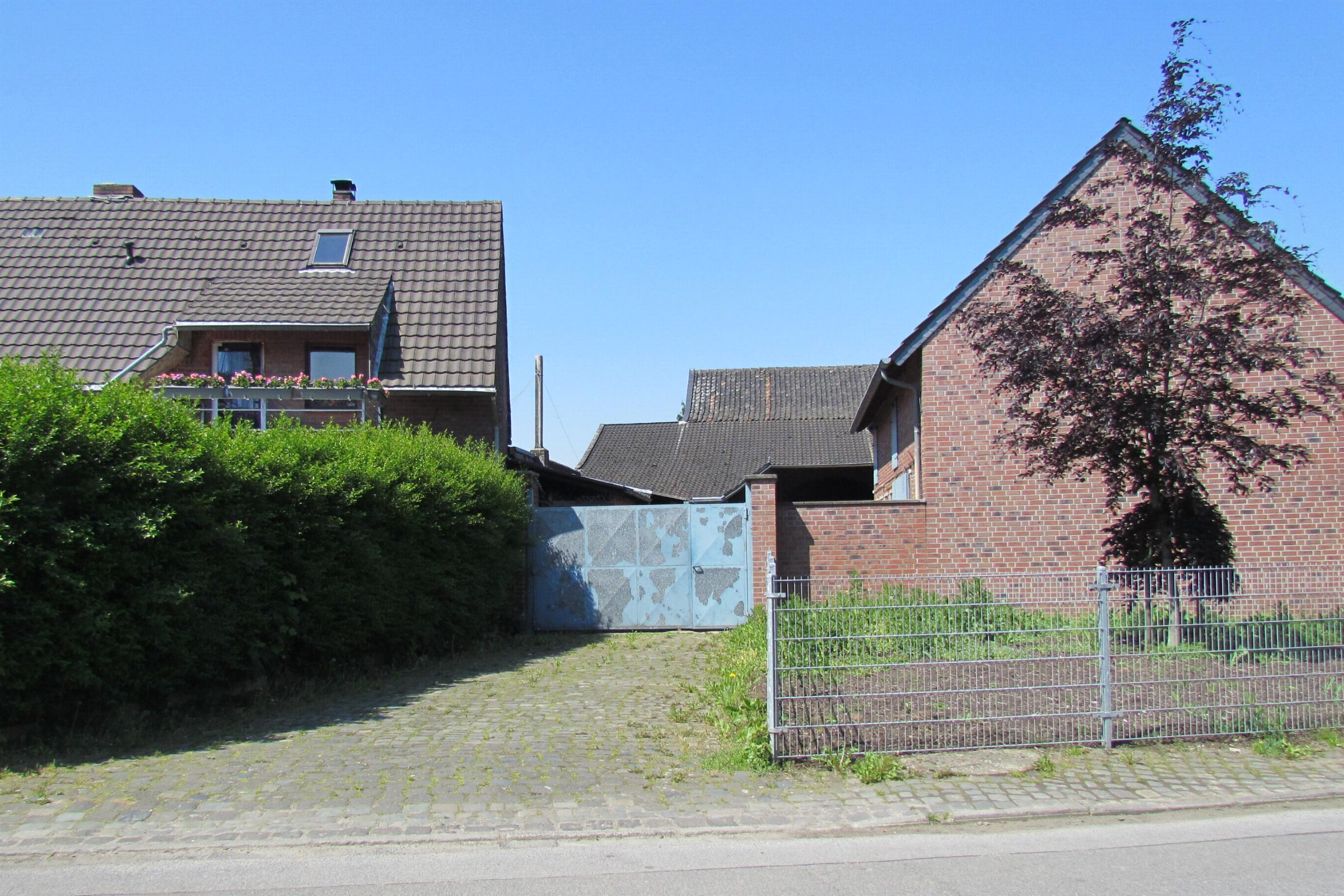 This is a photograph of an architectural monument.It is on the list of cultural monuments of Korschenbroich